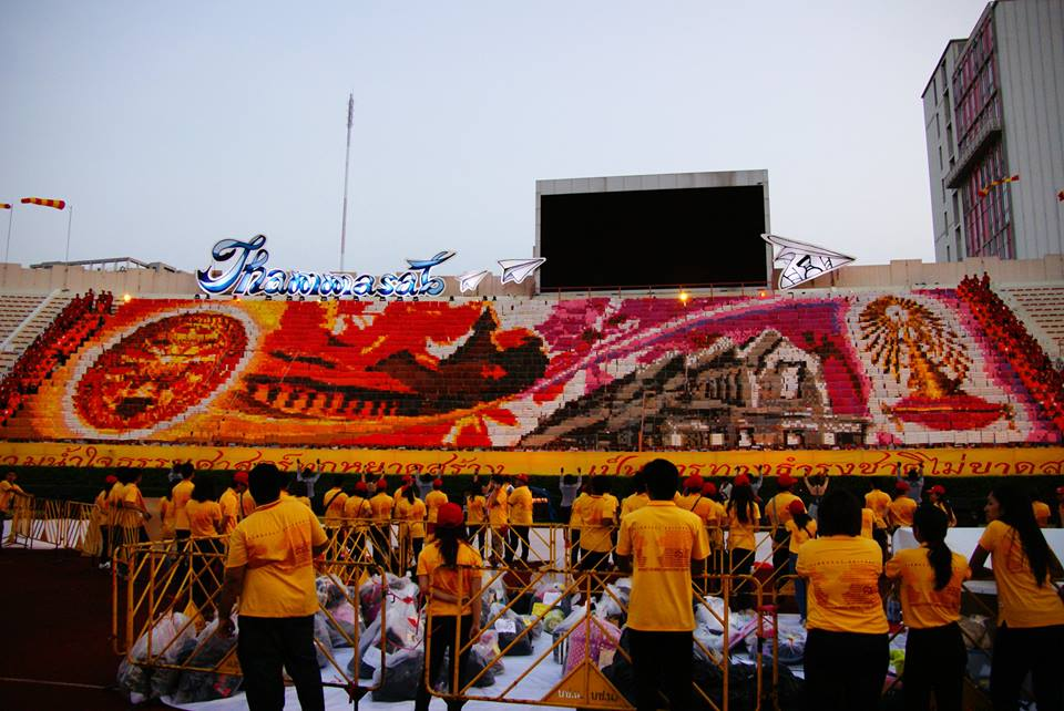 ภาพการแปรอักษรประจำงานฟุตบอลประเพณีจุฬาฯ–ธรรมศาสตร์ ครั้งที่ 68